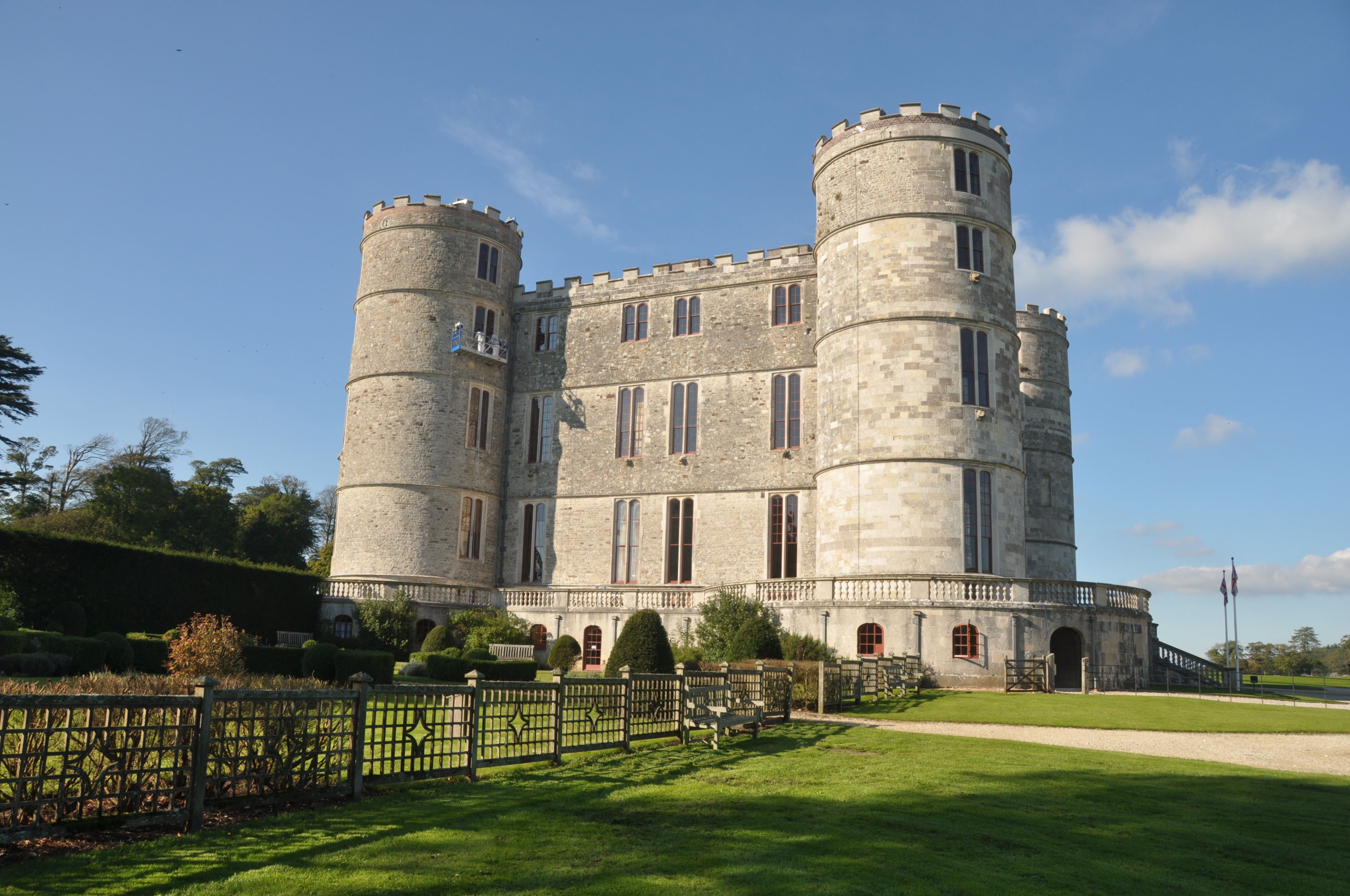 Lulworth Castle